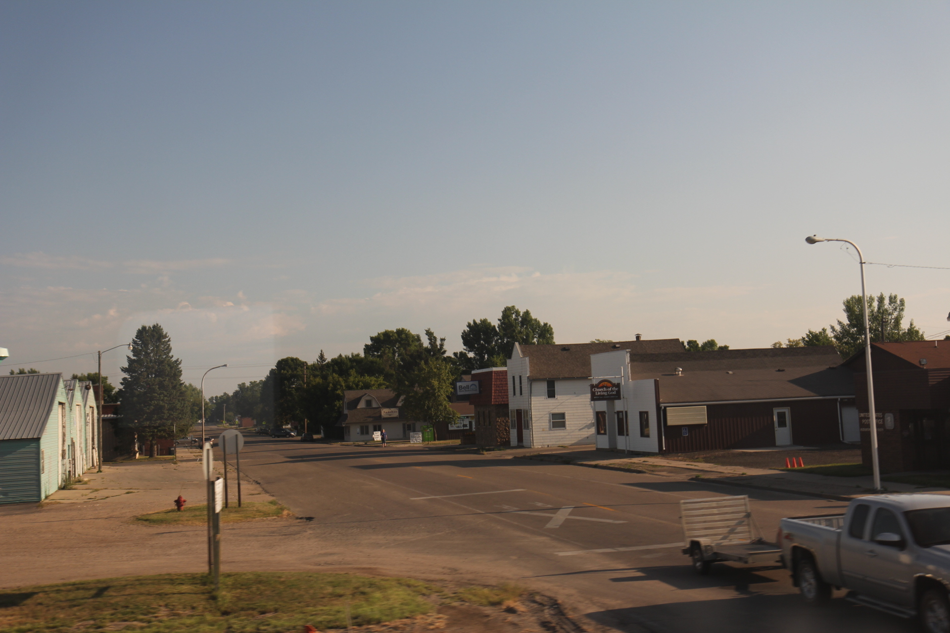 Downtown Audobon, MN.